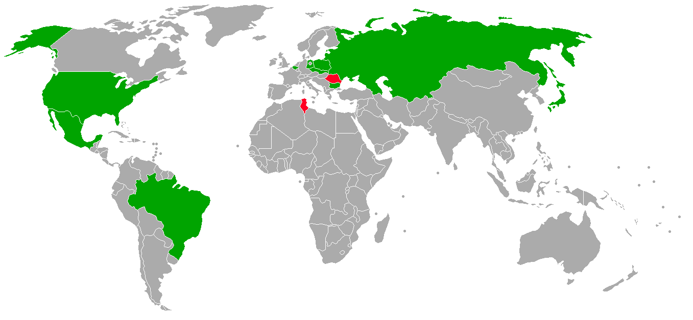 Volleyball at the 1968 Summer Olympics – Men's volleyball